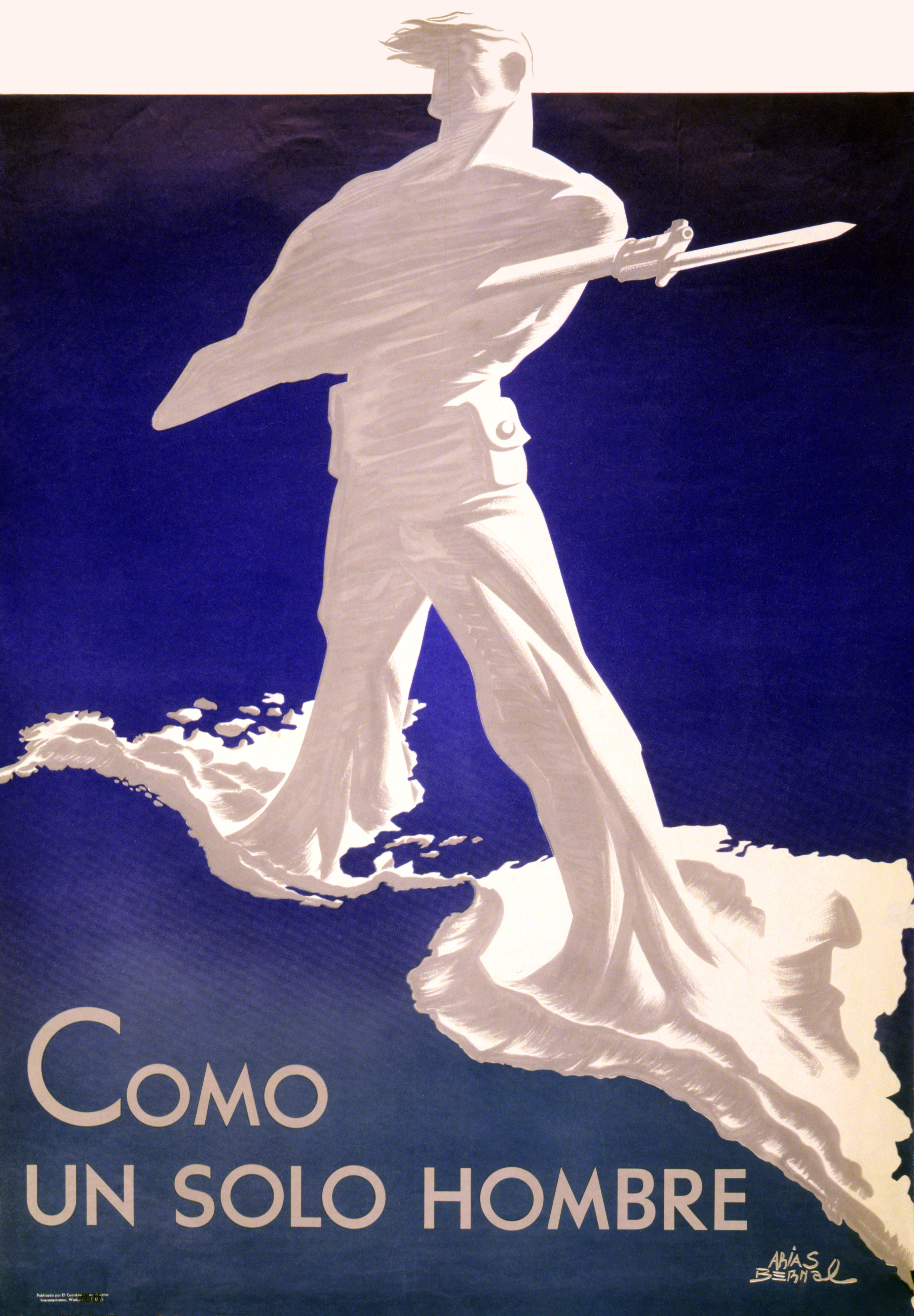 Poster promoting inter-American solidarity Text reads "Como un solo hombre" ("As one man")